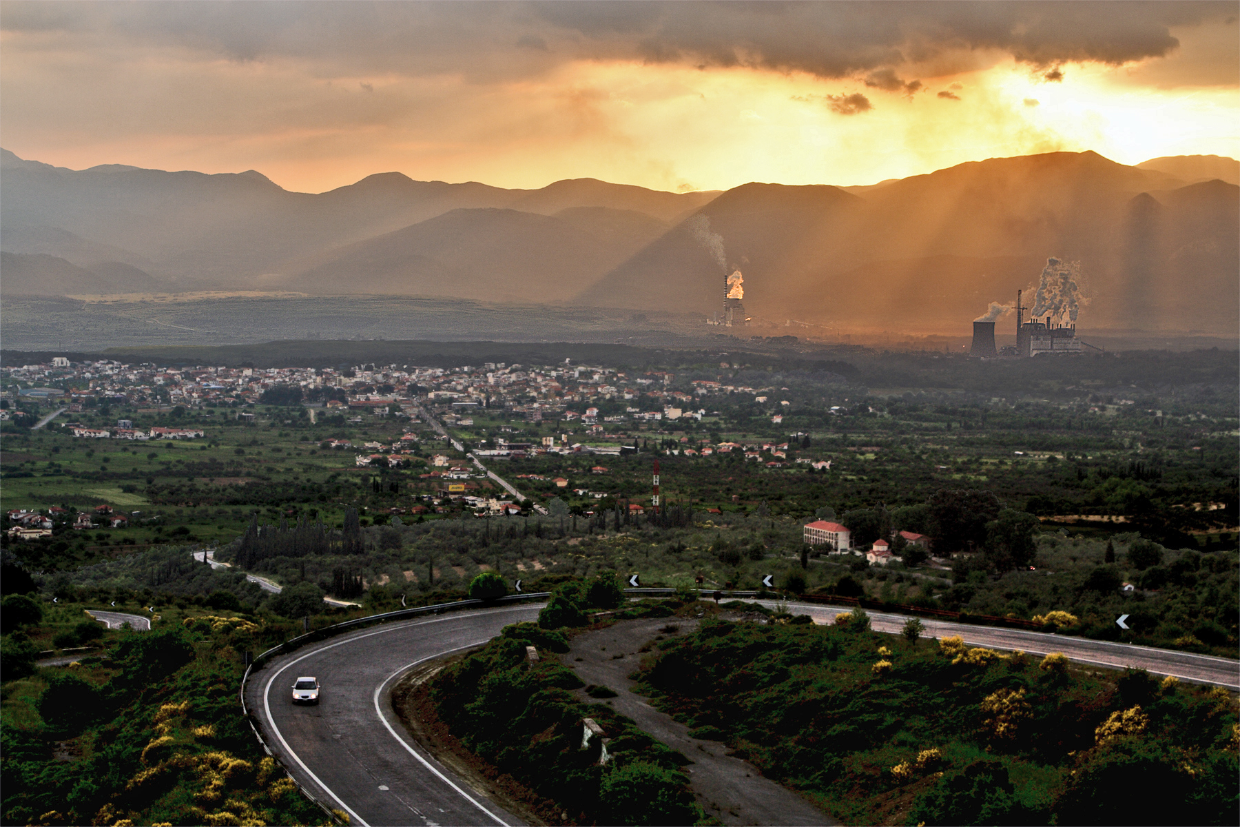 Megalopoli, Peloponnese, Greece. Town and plain heavily air-polluted by lignite, surface mined and burned in two powerstations southwards and westwards of the town. View south